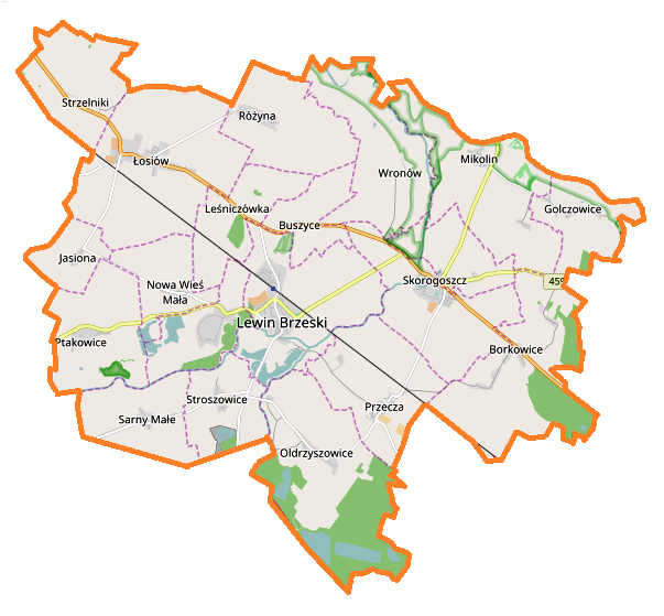 Location map